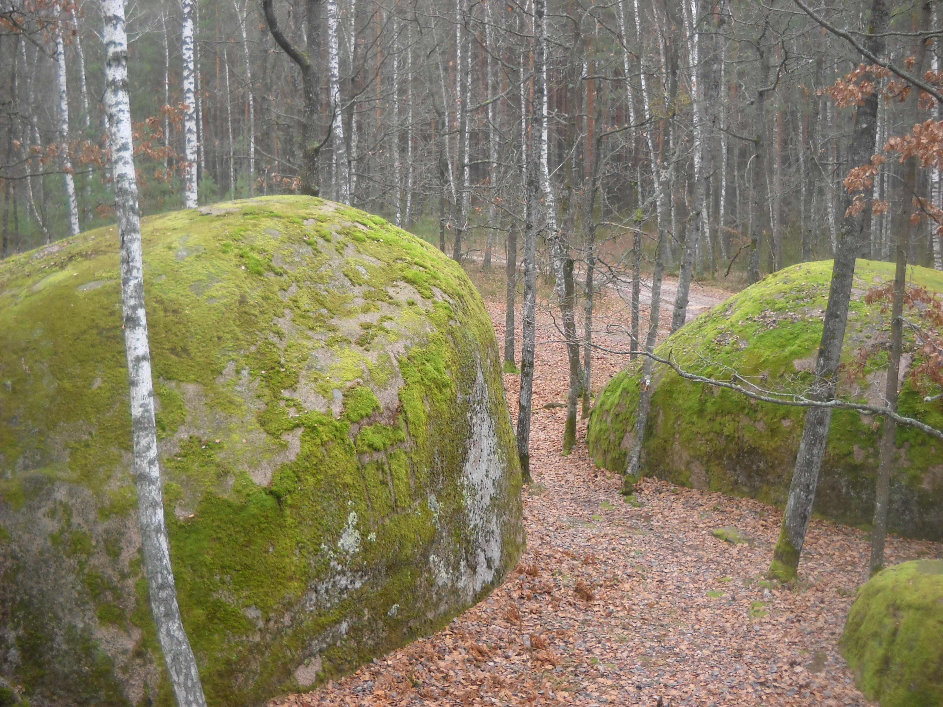 Nature reserve Kaminne Selo